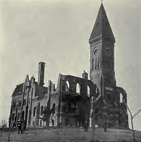 Ruins of Western College's (later named Leander Clark College) first college building at Toledo, Iowa, following the fire of December 26, 1889.